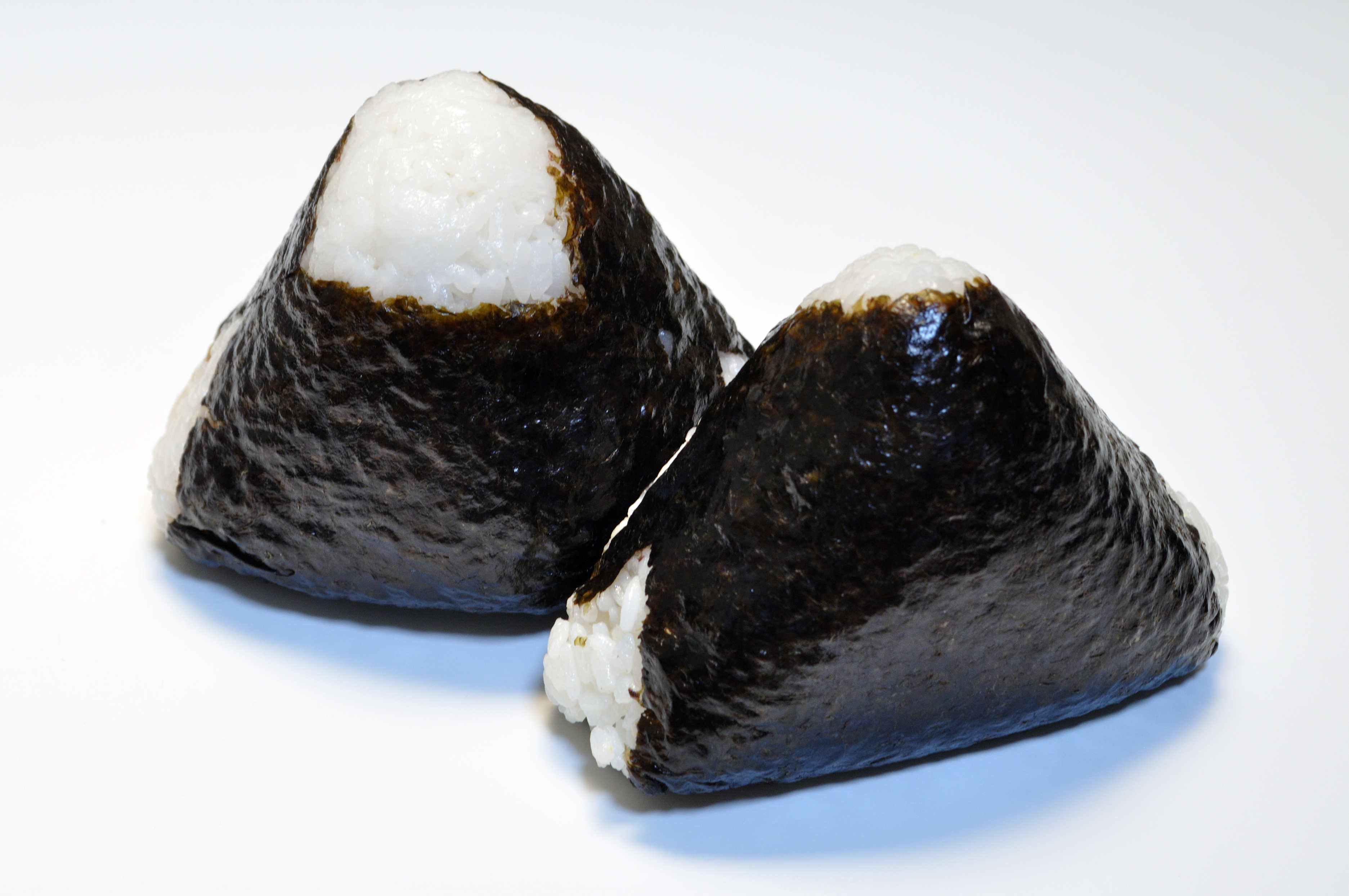 Sample of Onigiri in Japan